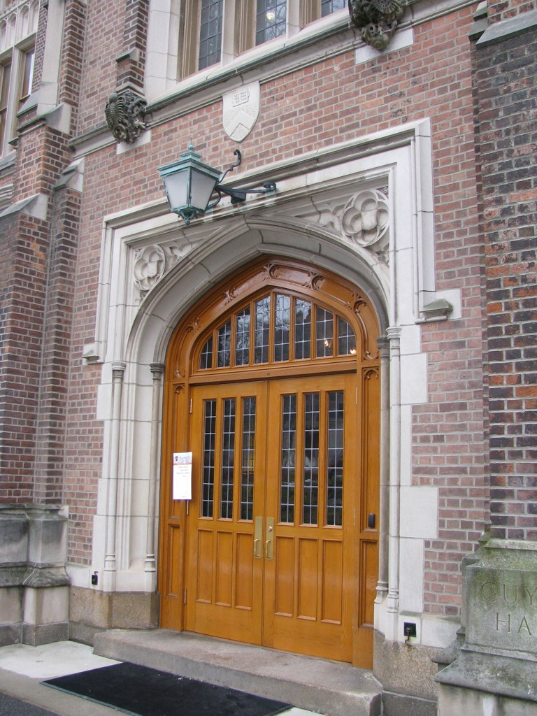 Main entrance of Guyot Hall, home of the Princeton University Department of Geosciences and the Princeton Environmental Institute.